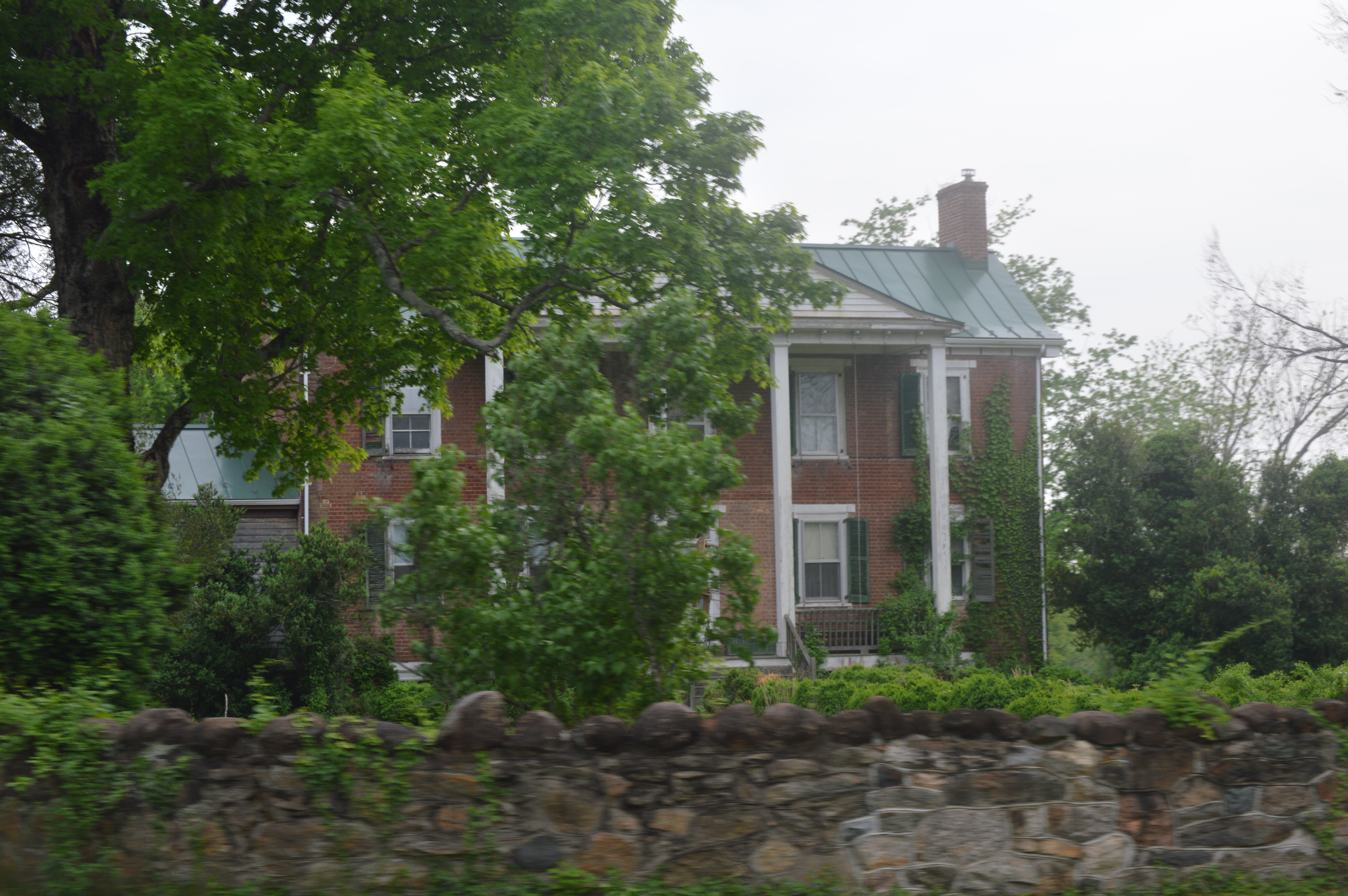 Front of Woodlands, located on Woodlands Road north of Charlottesville in Albemarle County, Virginia, United States. Built in 1843, it is listed on the National Register of Historic Places.